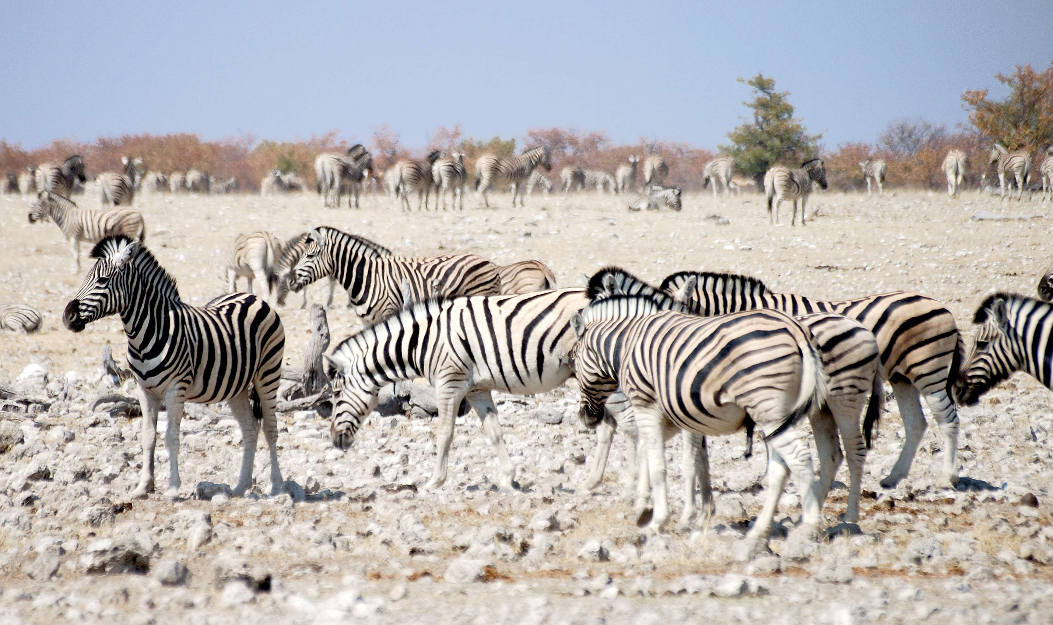 Zebras at Etosha National Park